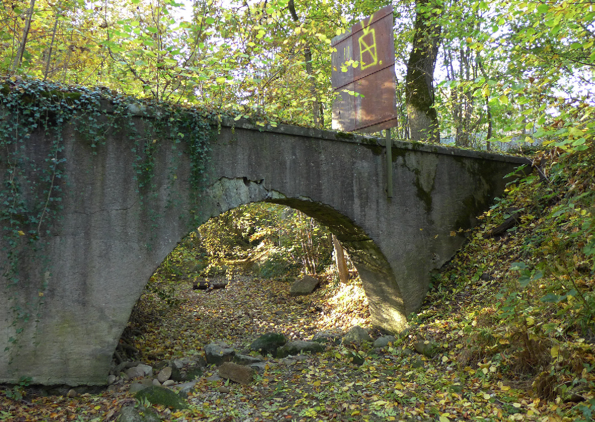 Channel Bridge over the Süssbach River